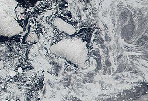 Terra MODIS satellite image of Resolution and Edgell Island, Nunavut, Canada